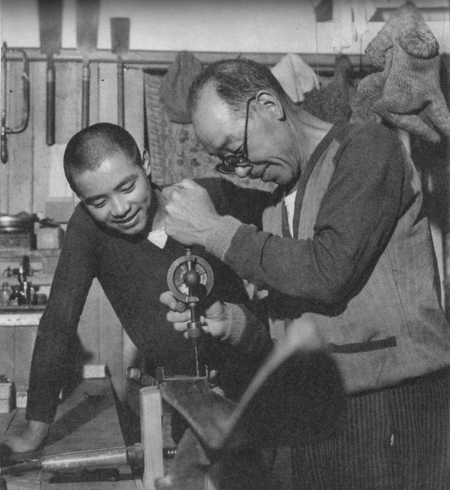 Chiharu Igaya and Kunio Igaya (Chiharu's Father), 1950.